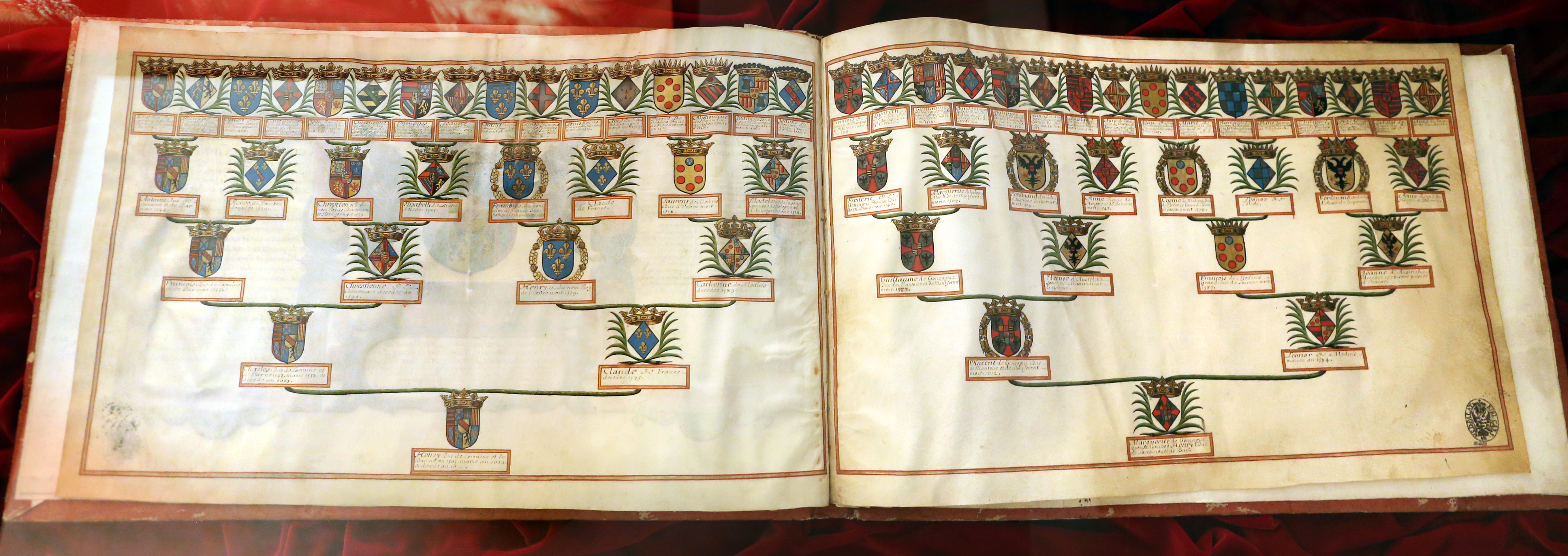 Biblioteca Medicea Laurenziana manuscripts